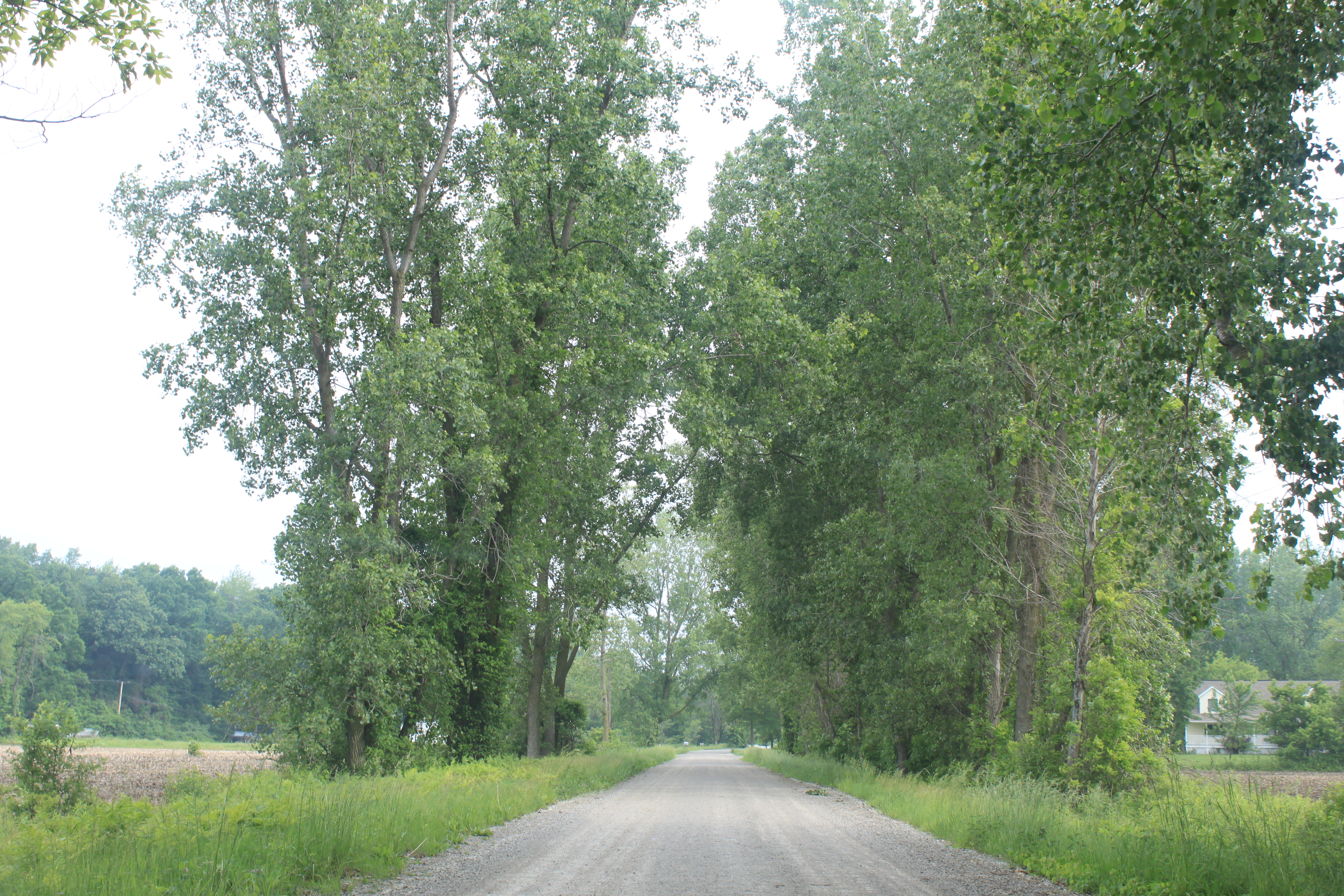 Tuttle Hill Road, London Township, Michigan